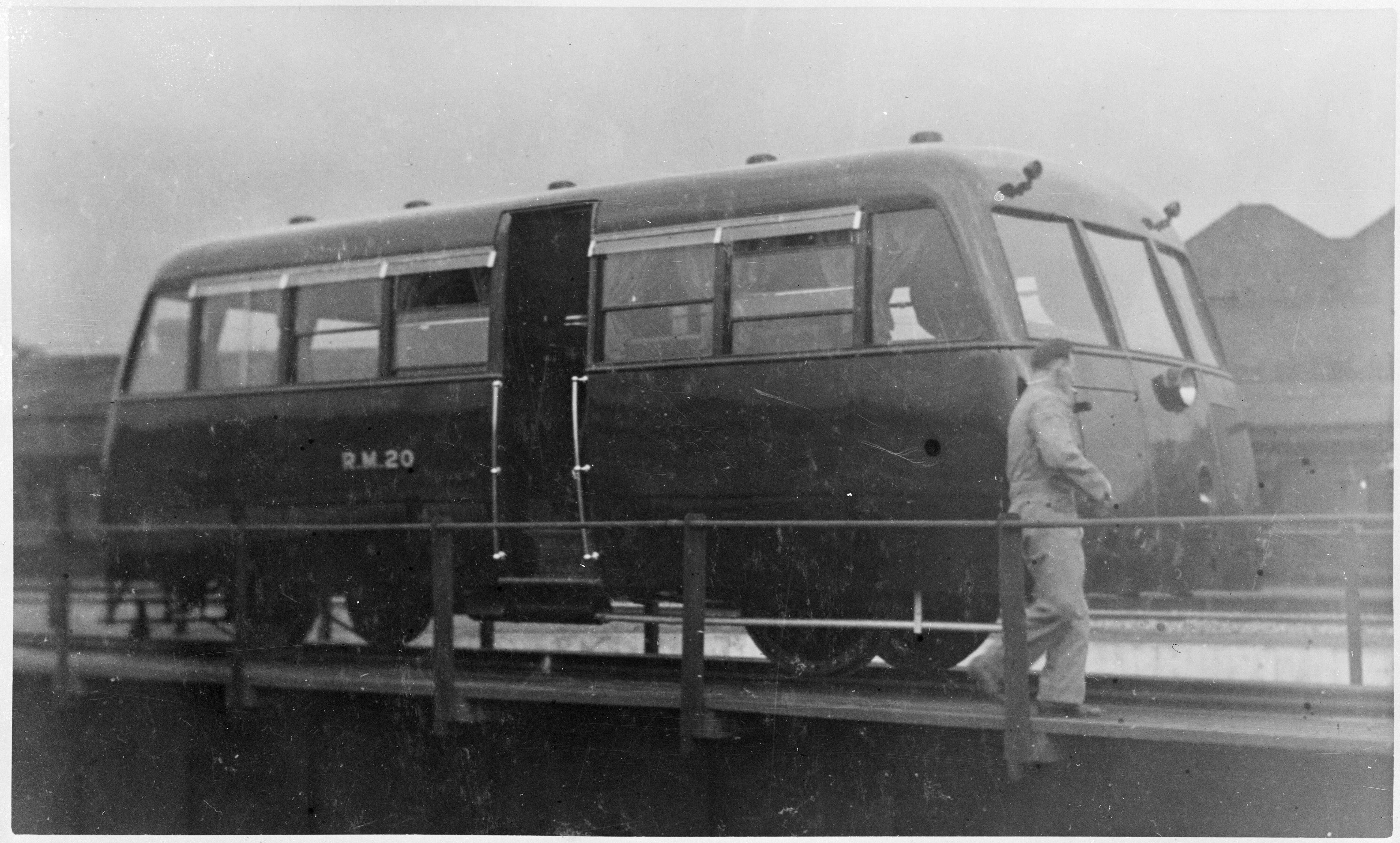 View of Rail Motor R.M.20 in 1936. New Zealand Railways photograph, with an original print filed in Godber Album Vol 108, p 97 (Pa1-q-101). This image is a film negative copied by A P Godber from the original print in his album.